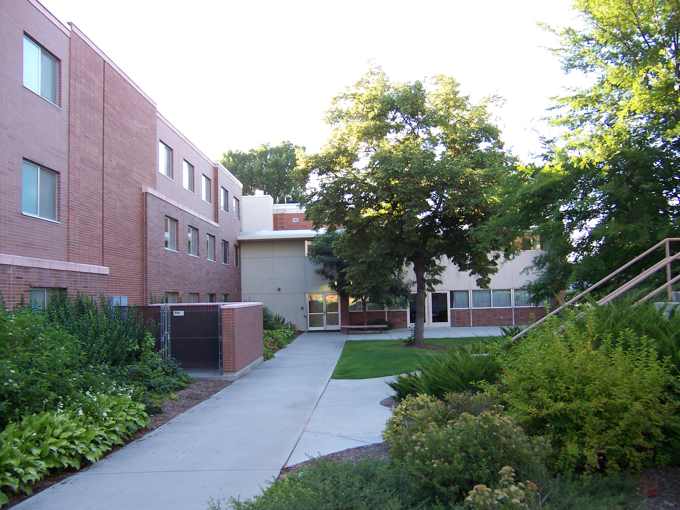 Photograph of Helaman Halls (E) Taylor (Thomas N.) Hall at Brigham Young University.